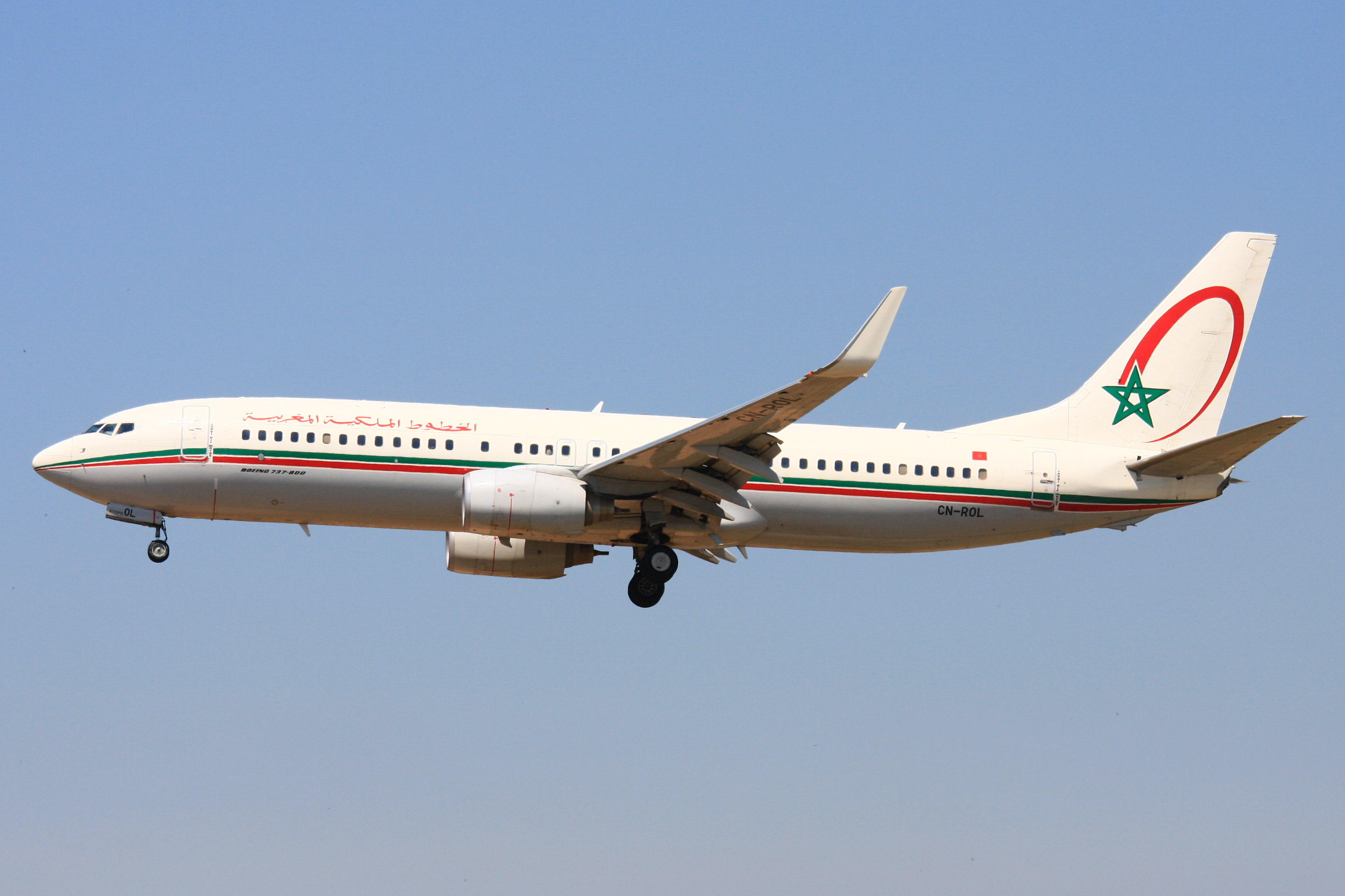 A Boeing 737-800 of Royal Air Maroc landing at Frankfurt Airport